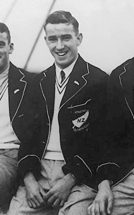 New Zealand athletes on board Wanganella on their way to the Berlin Olympics, 14th June 1936. Cecil Matthews.